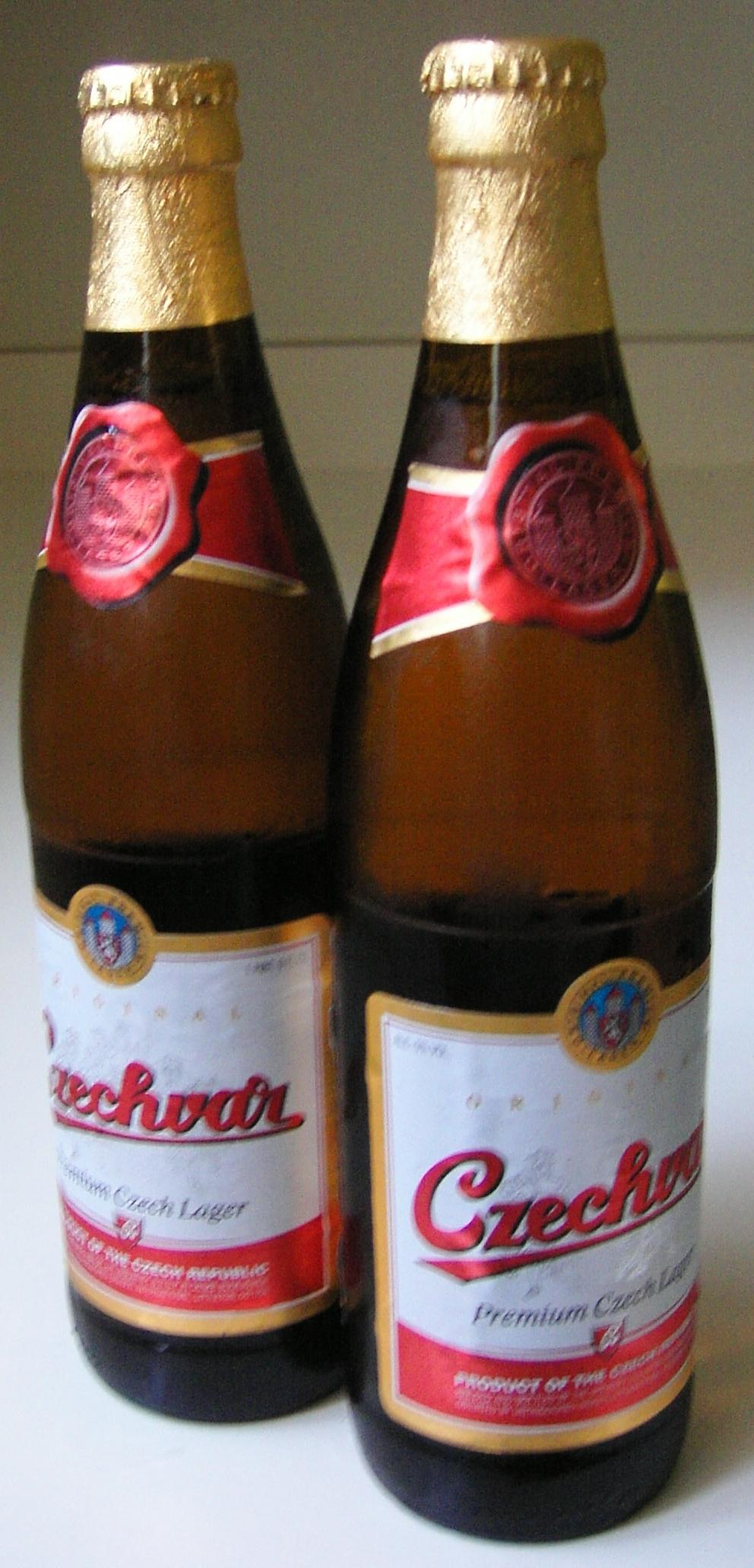 Czechvar as sold at Whole Foods Market in the US